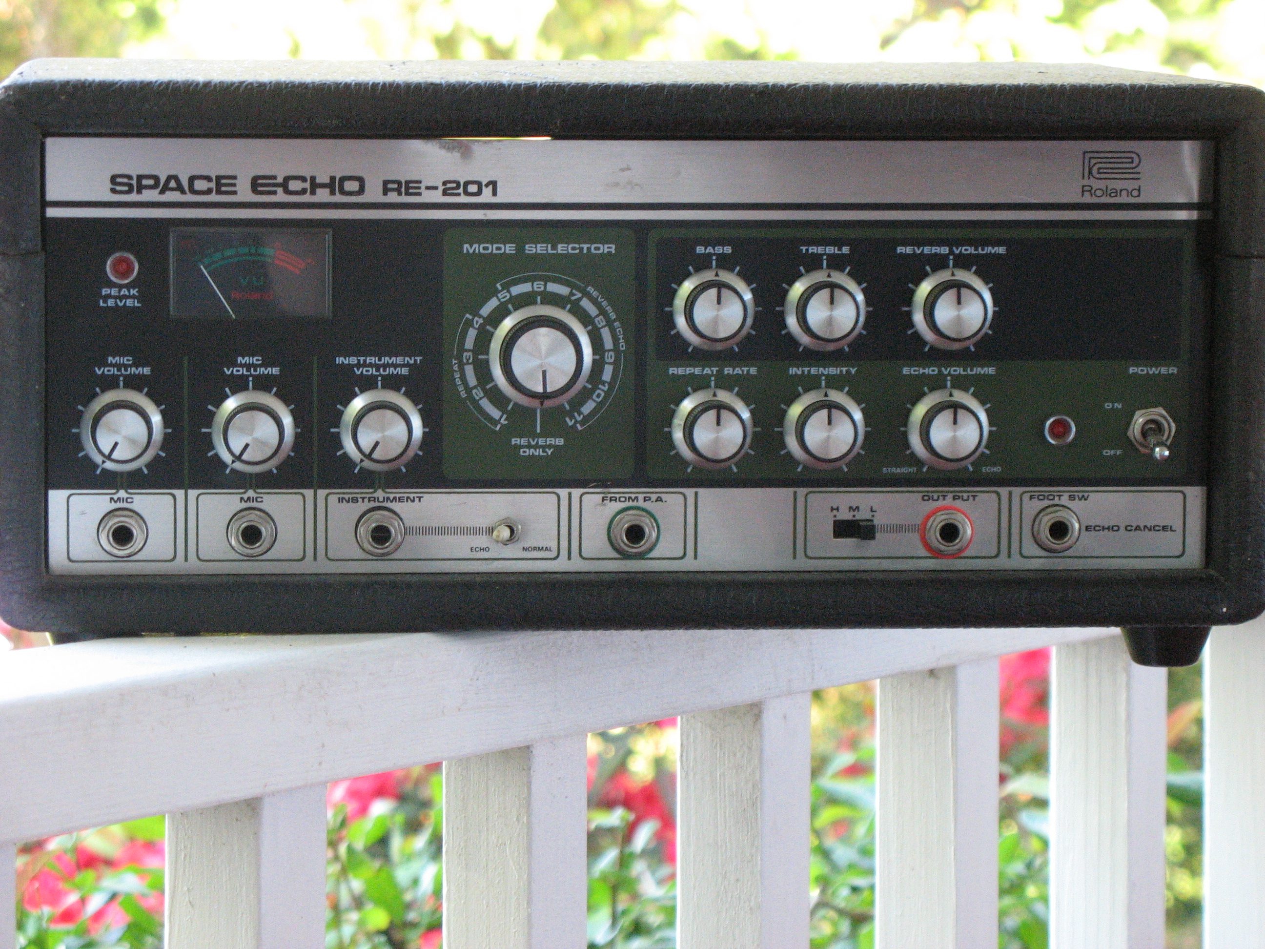 Photograph of the front panel of a Roland RE-201 Space Echo